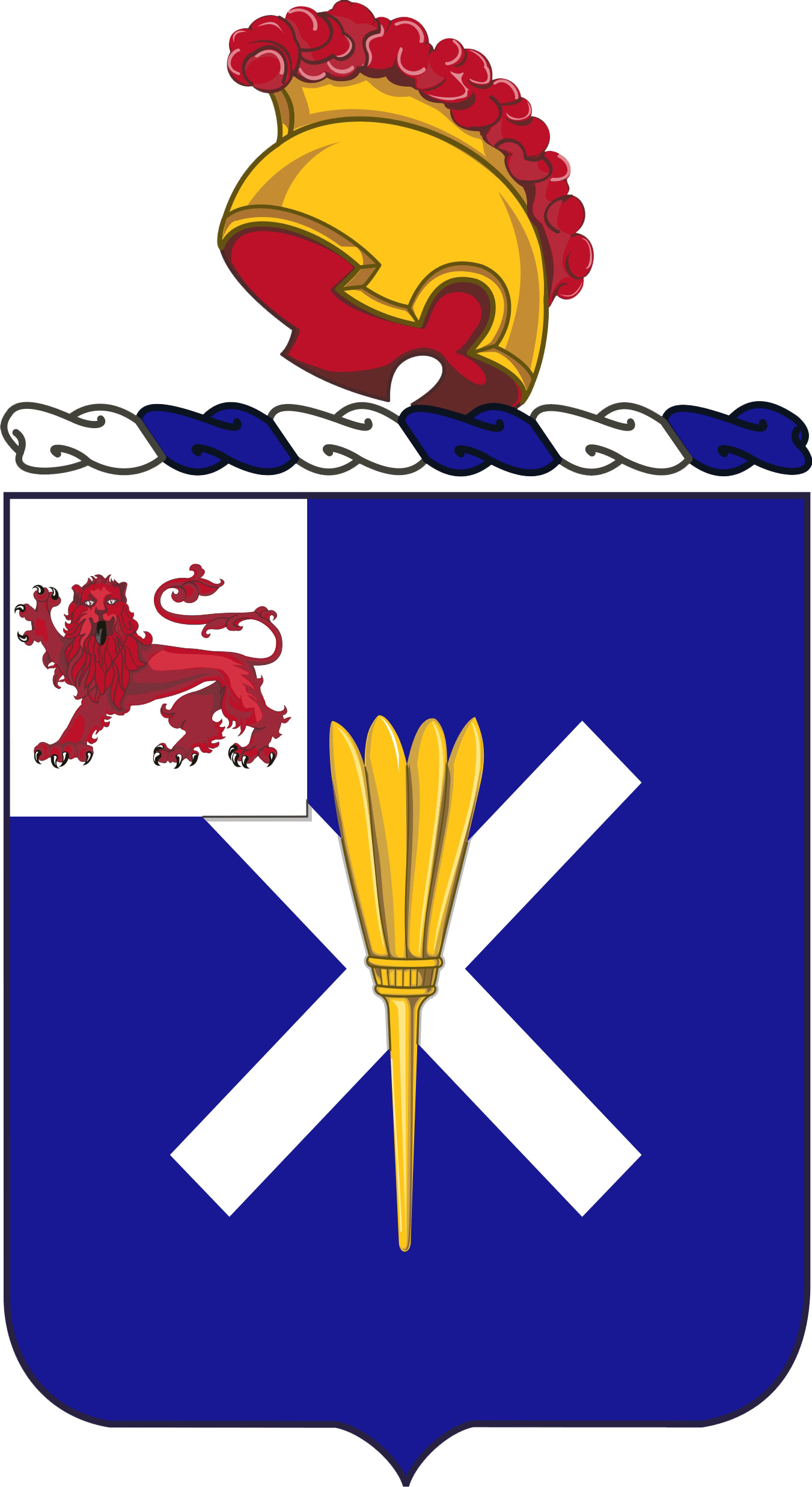 32nd Infantry Regiment Coat Of Arms